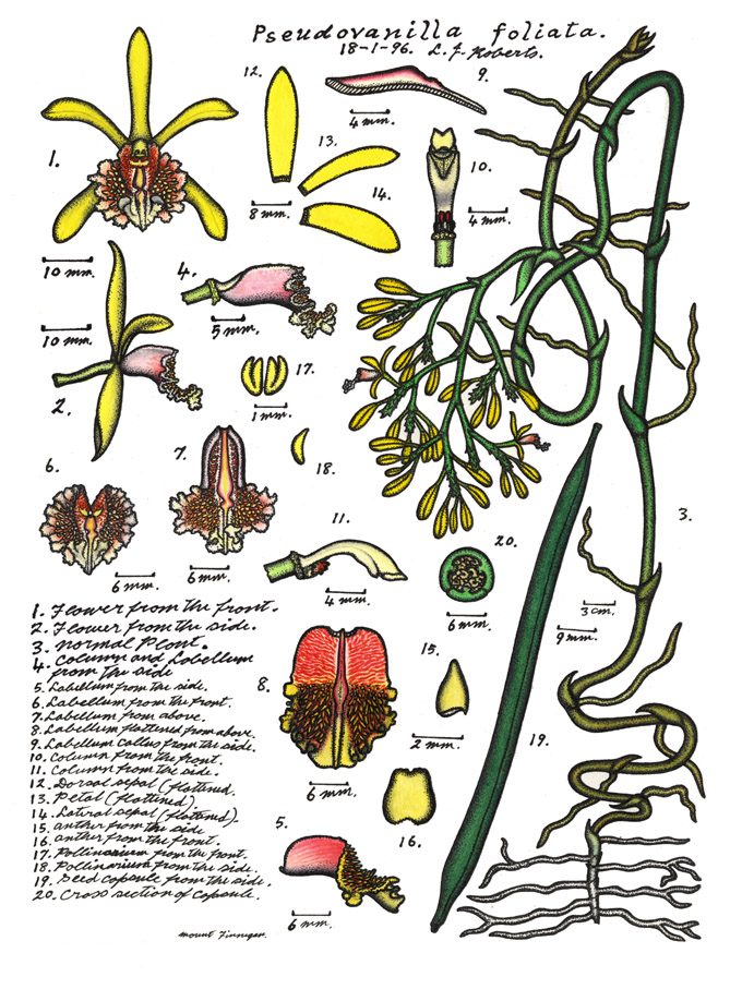 This image is one of a series by Lewis Roberts